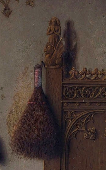 Crop of the painting The Arnolfini Portrait